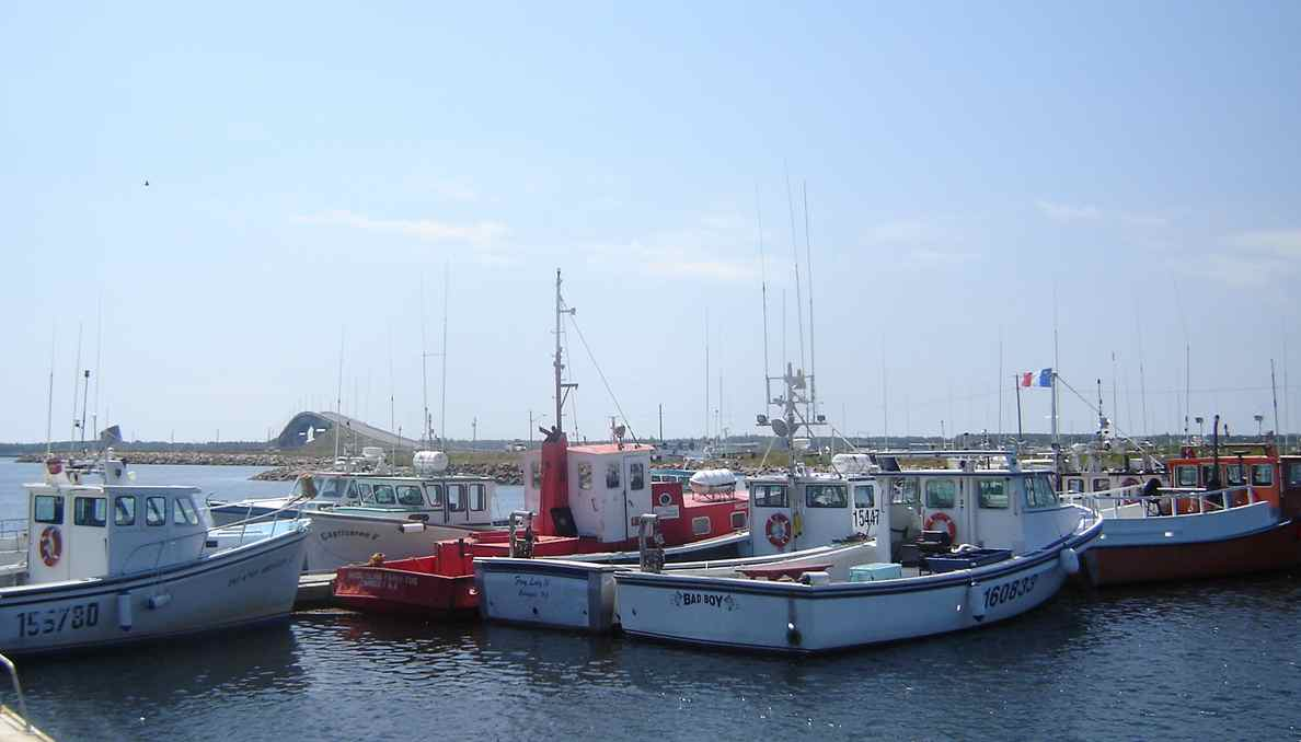 Photo of the fishing fleet in Miscou Harbour with the bridge in the background.